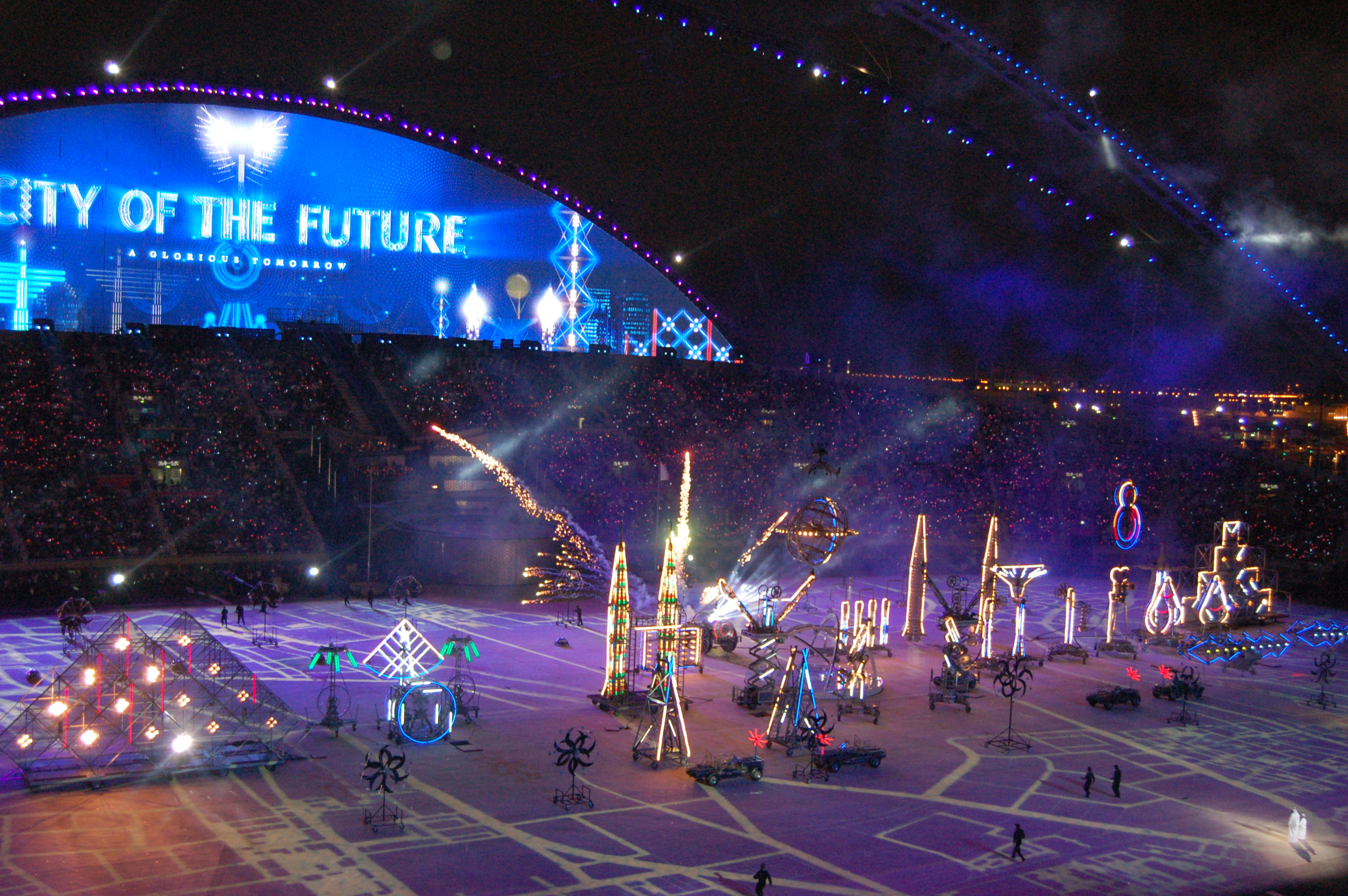 2006 Doha Asian Games Opening Ceremony